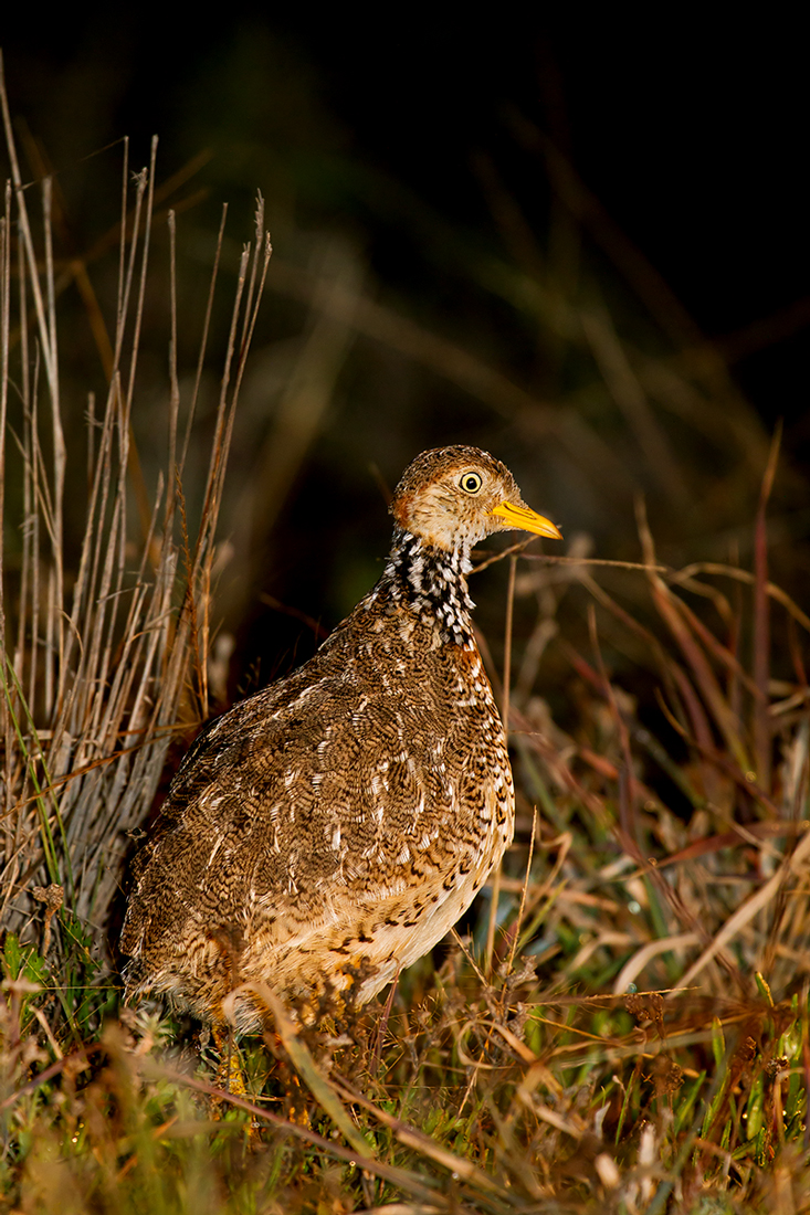 Plains-wanderer Pedionomus torquatus, female. North of Deniliquin, NSW. Map location not precise as bird is on private land.